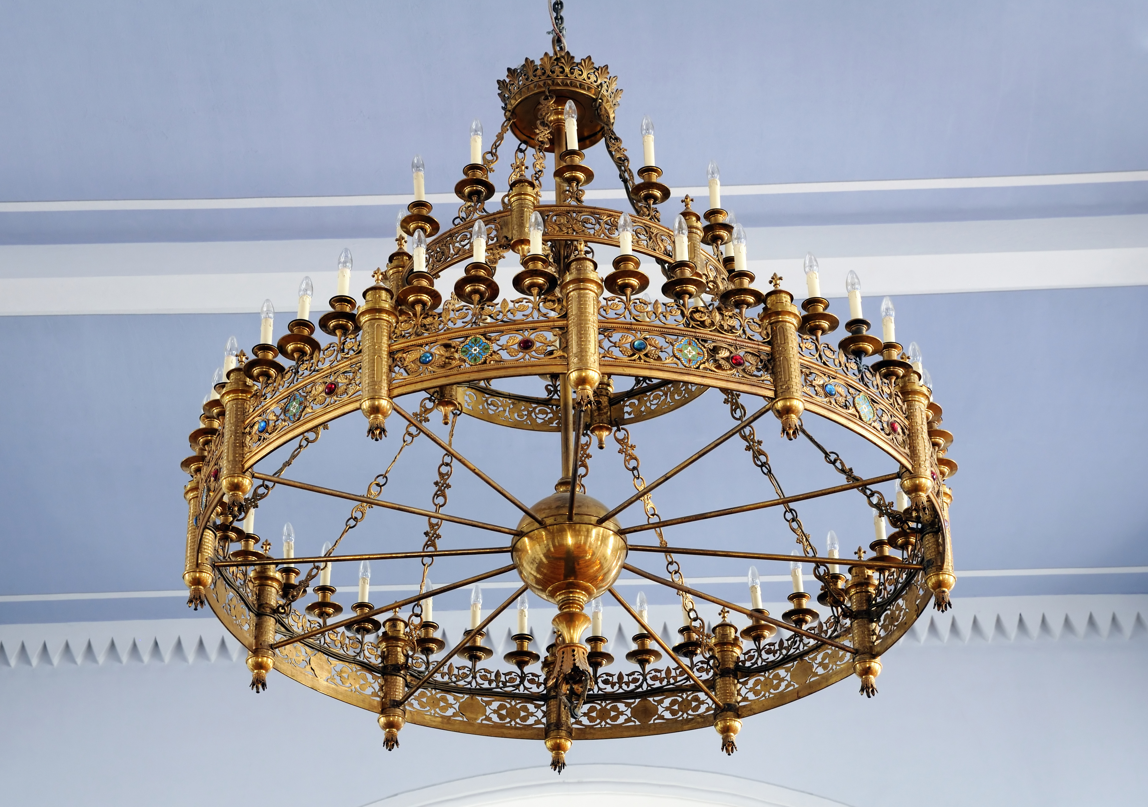 Corona (chandelier) in the Catholic Church, Schwörstadt, Germany.